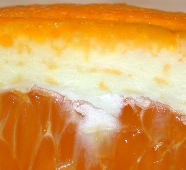 A close-up section of an orange, showing the layers of zest, peel, and flesh.